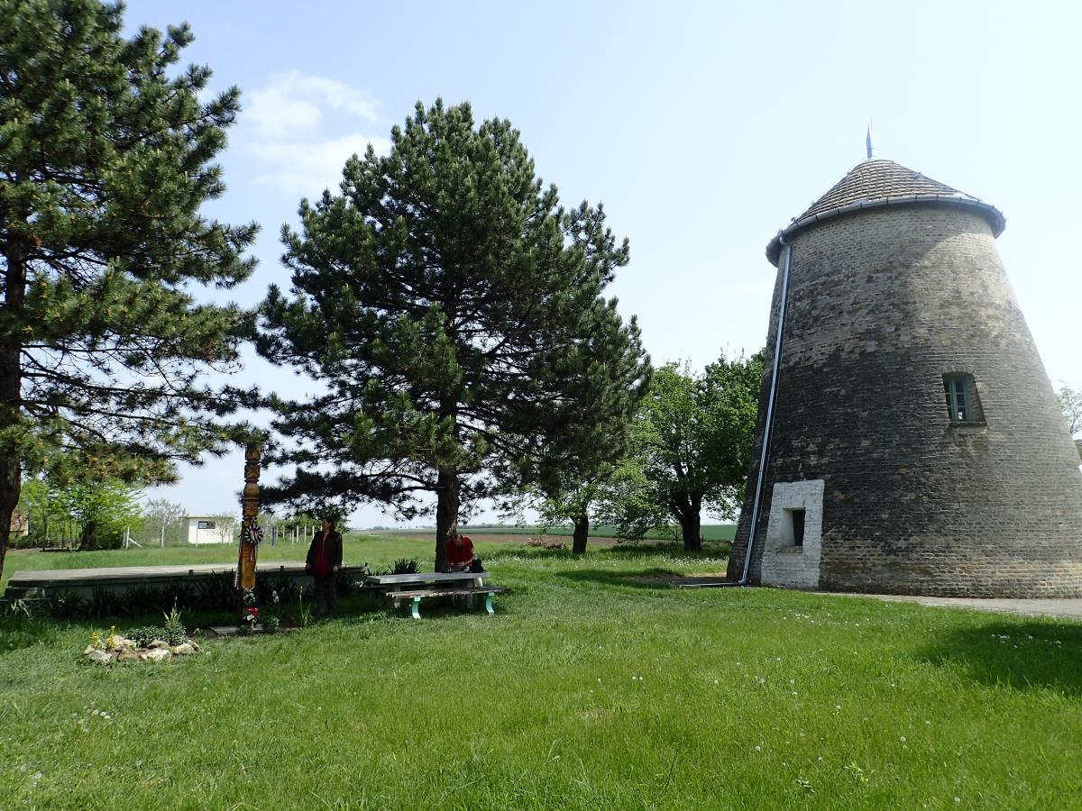 vetrenjaca obornjaca